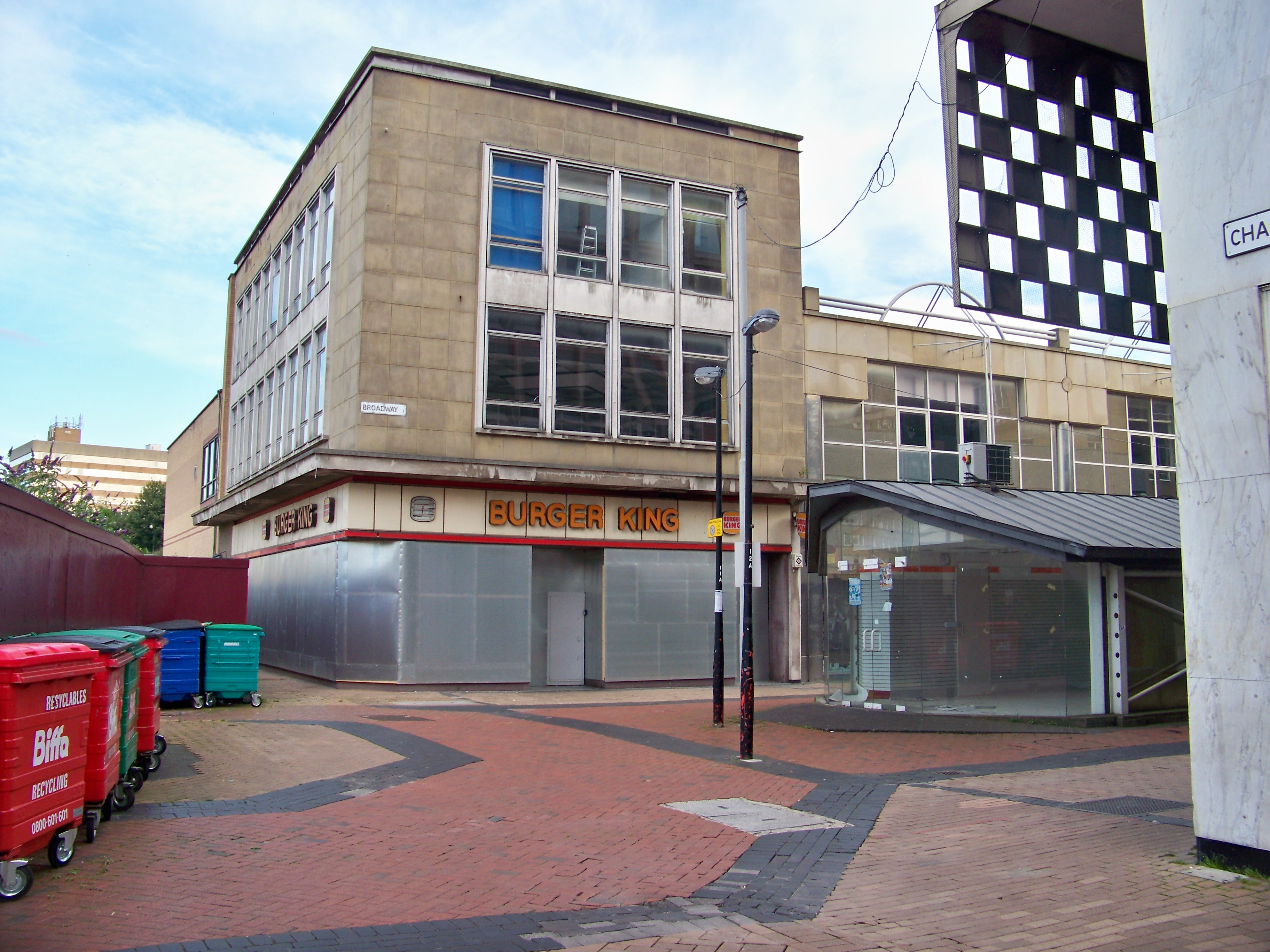 A branch of Burger King on Broadway, Bradford, West Yorkshire, England. The branch is in an old livery and has closed down. The area is on the fringes of the Broadway development in Bradford which has been delayed in construction, leaving the area somewhat rundown. Taken on the Evening of Wednesday 5th August 2009.